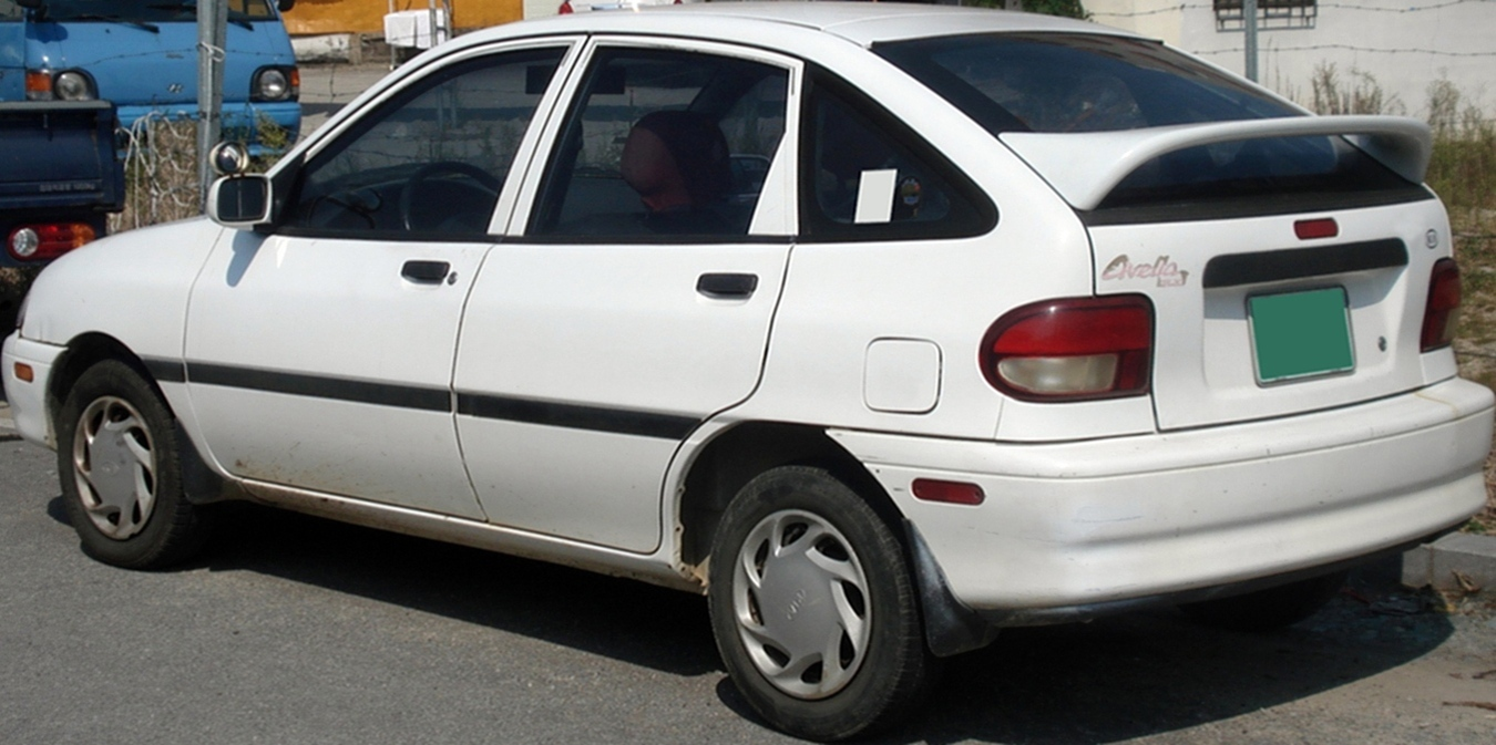 Kia Avella